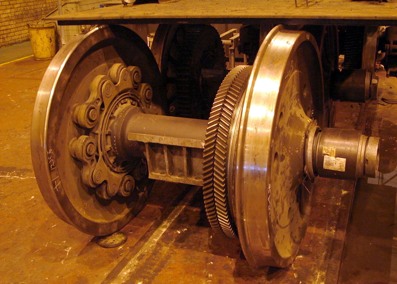 Spoornet Class 14E wheels use double helical or herringbone gears Location: Bellville, Cape Town